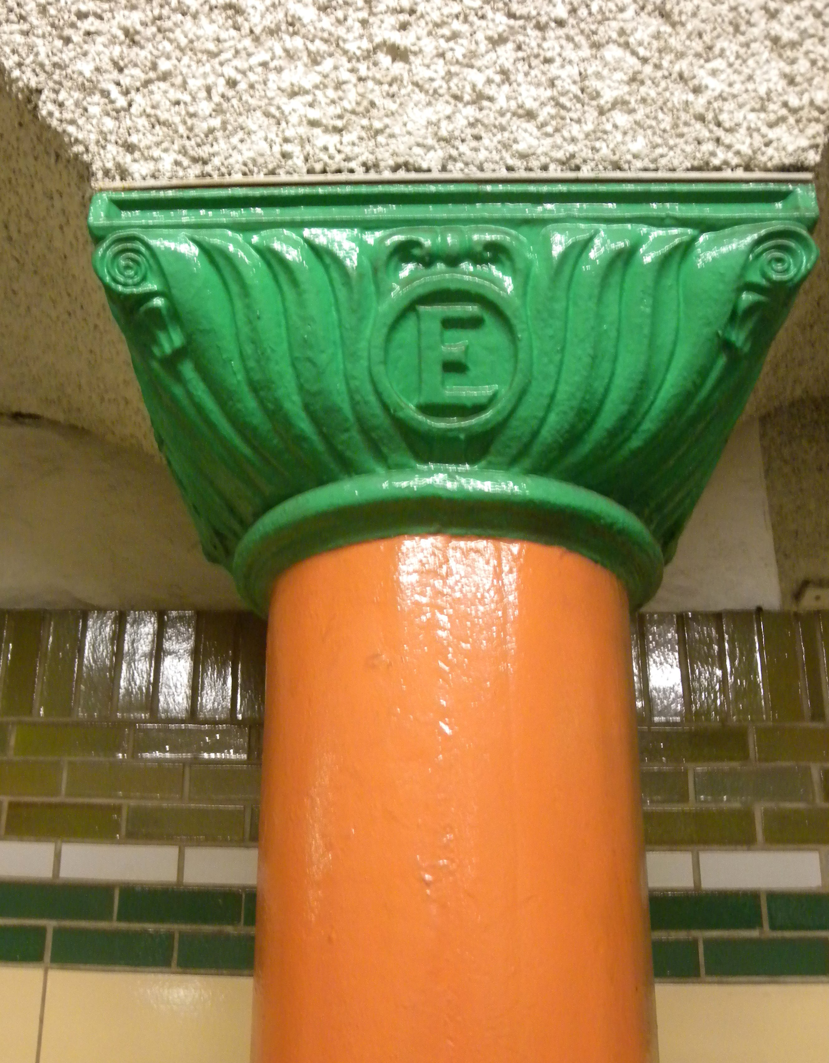 Looking south at a column head with E on it, in the southern part of Pavonia Station.